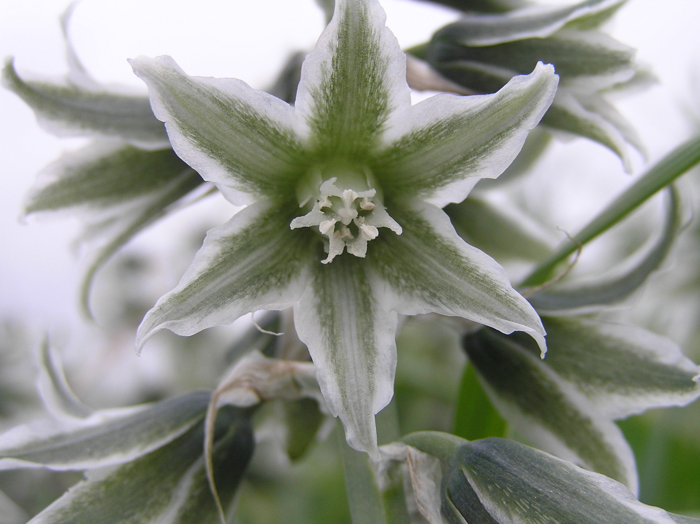 Ornithogalum boucheanum, between Lanžhot and Břeclav, Southern Moravia, Czech Republic